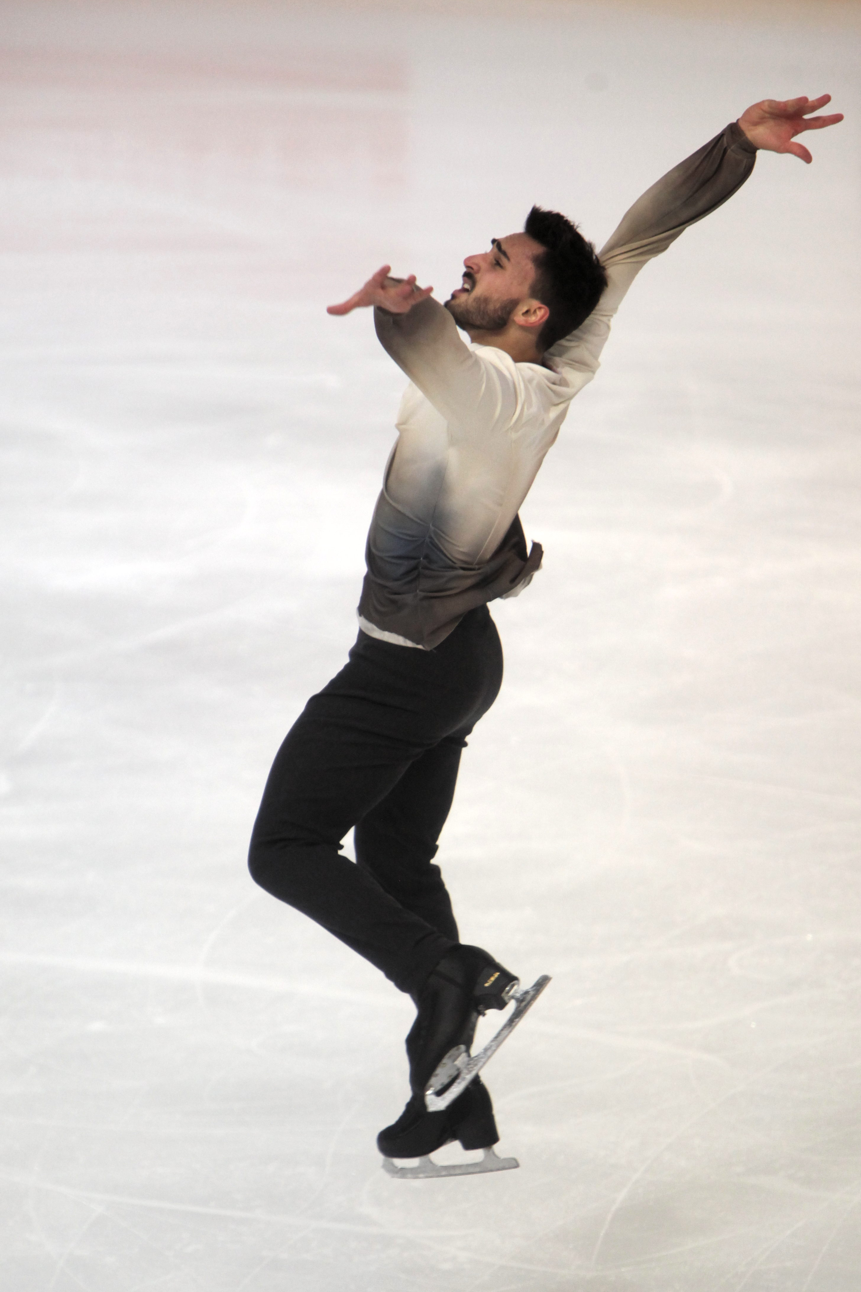 Kévin Aymoz during the men's singles free skating at the Internationaux de France de Patinage 2018.